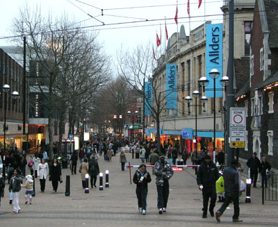 Croydon's main shopping street, North End, taken 5 Feb 2005